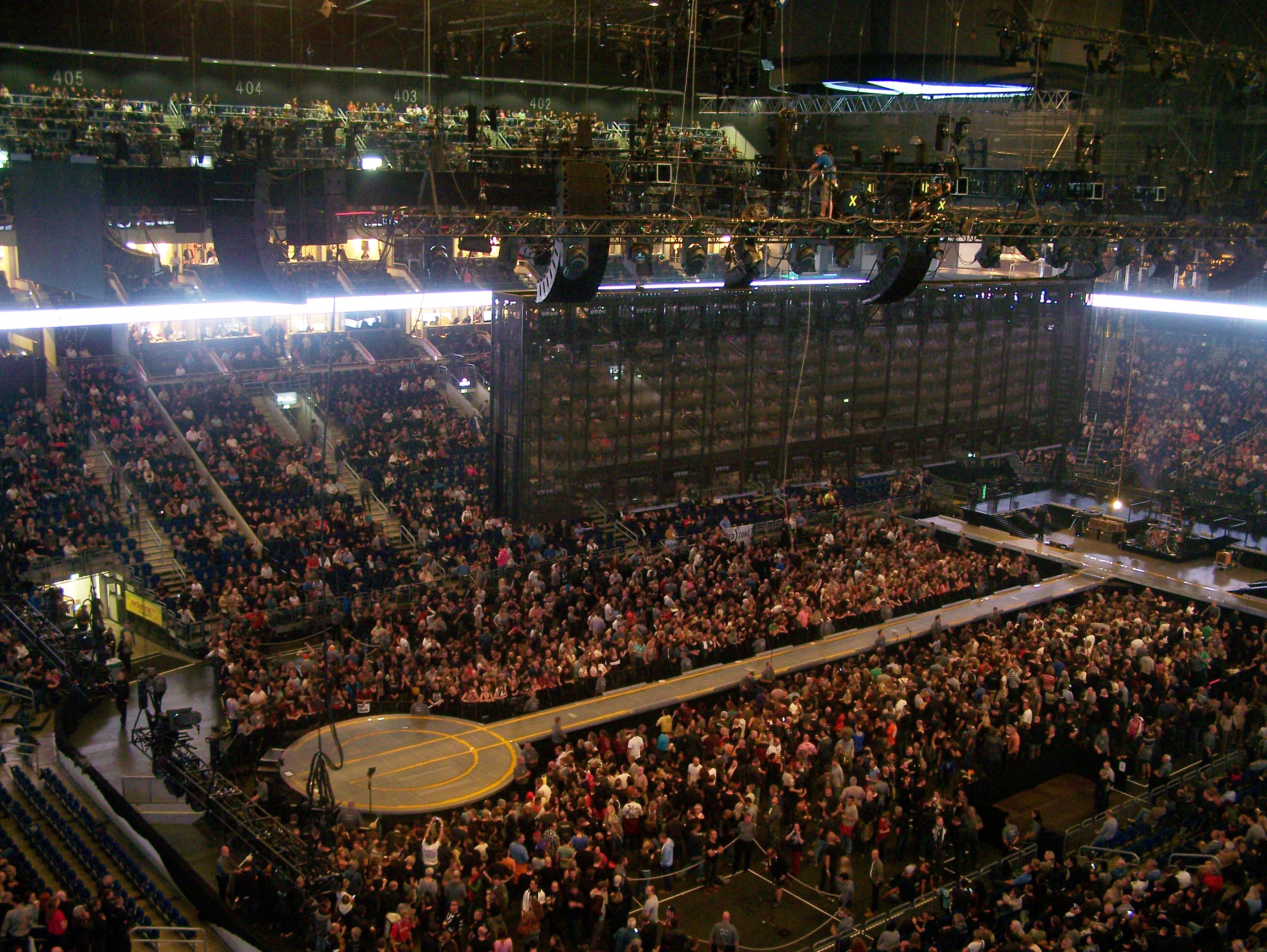 U2's stage for the Innocence + Experience Tour prior to a show in Berline, Germany on September 29, 2015